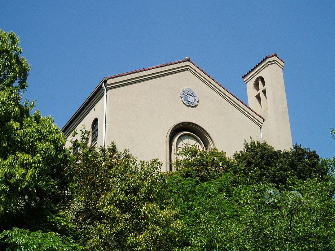 Howe Memorial Hall, Shoei Junior College, located in Higashinada-ku, Kobe, Hyogo, Japan. The hall commemorates Annie L. Howe (1852 - 1943), the founder of the school.